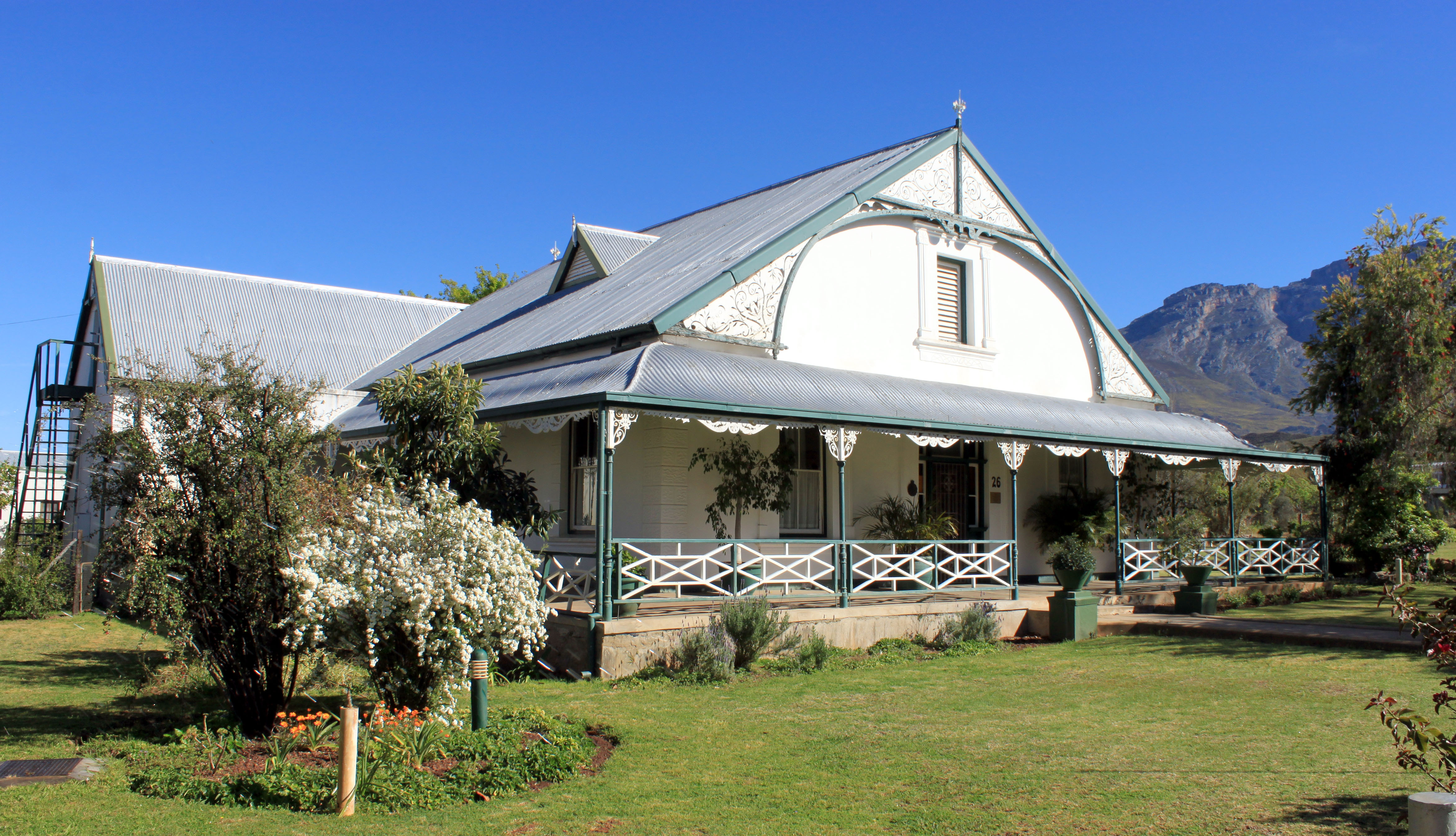 Albert Manor, c1899, is a grandiose Victorian manor house, built for Matthys van Tonder as a retirement house. This media shows a South African Protected Site with SAHRA file reference 9/2/056/0018.